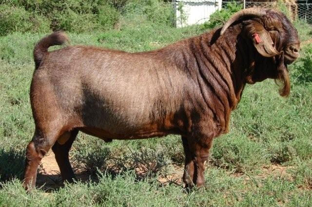 Kalahari Red Ram